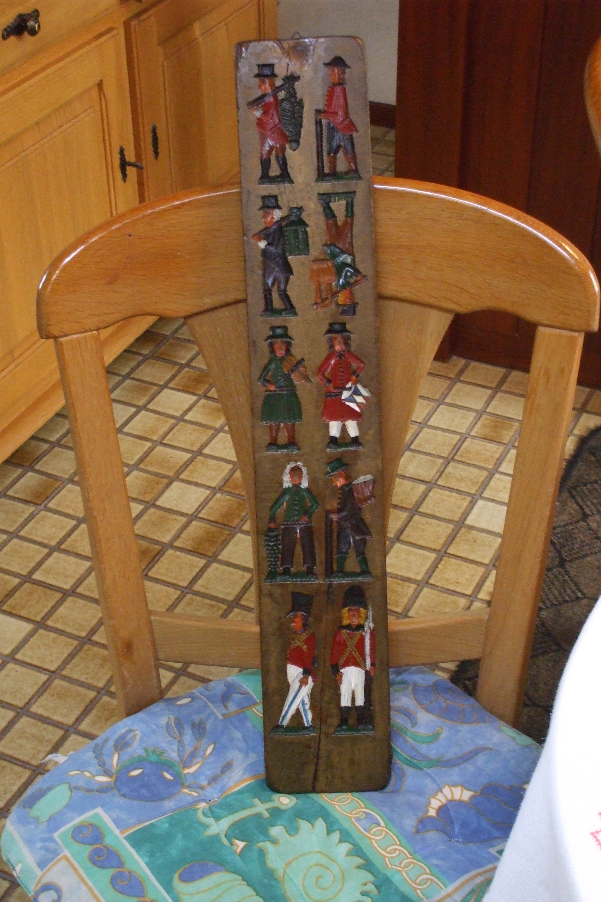 Old speculaasplank - a wooden form used to make speculaas cookies. Now painted and used as decoration.